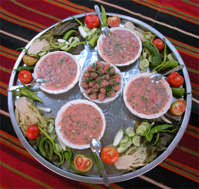 Batırma, a traditional Turkish meal